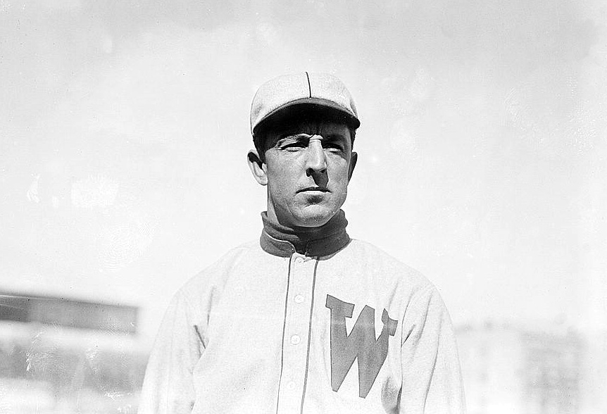 "Wid Conroy, Washington, AL (baseball)" A 1911 image, from the Bain News Service, of William "Wid" Conroy, a baseball player.